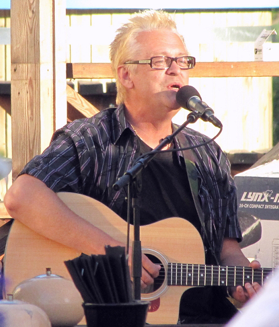 Nick Borgen